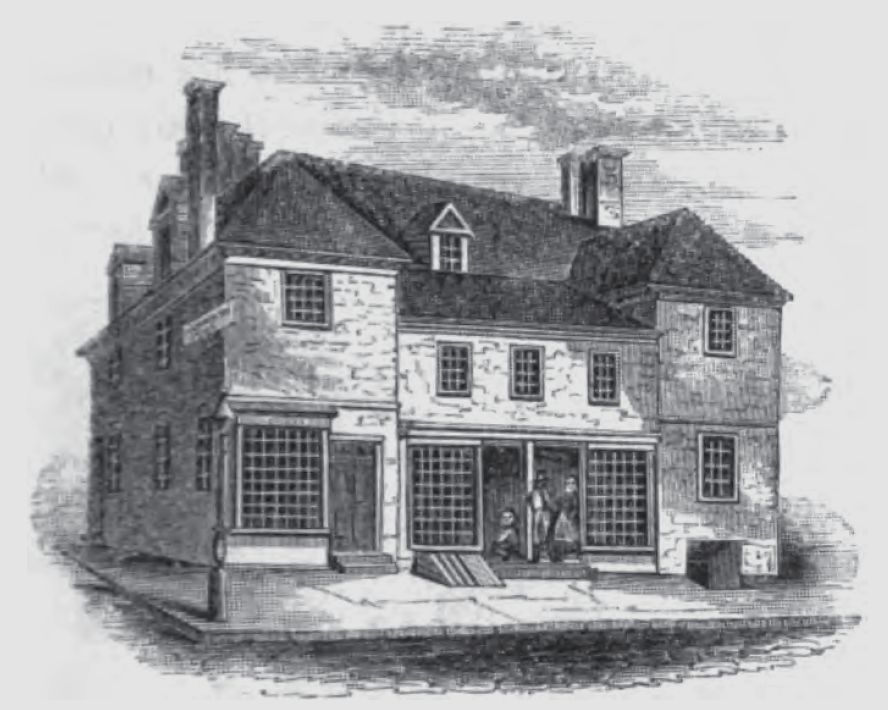 William Penn's "Slate Roof House" from Benson John Lossing's The pictorial field-book of the revolution: or, Illustrations, by pen and pencil, of the history, biography, scenery, relics, and traditions of the war for independence. Harper & Brothers, 1850. p. 95. Caption in footnote reads, "This view is from Second Street. The building is of imported brick, except the modern addition beWeen the wings, which is now occupied as a clothing store by an Israelite. The house is suffered to decay, and doubtless the broom of improvement will soon sweep it away, as a cumberer of valuable ground."